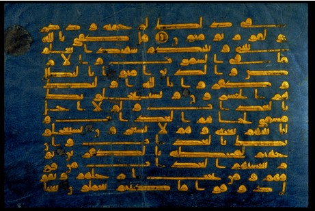 The Blue Qur'an. Kufic script. The manuscript is originally in Qairawan, Tunisia. Part of Surat Al-Ankabut